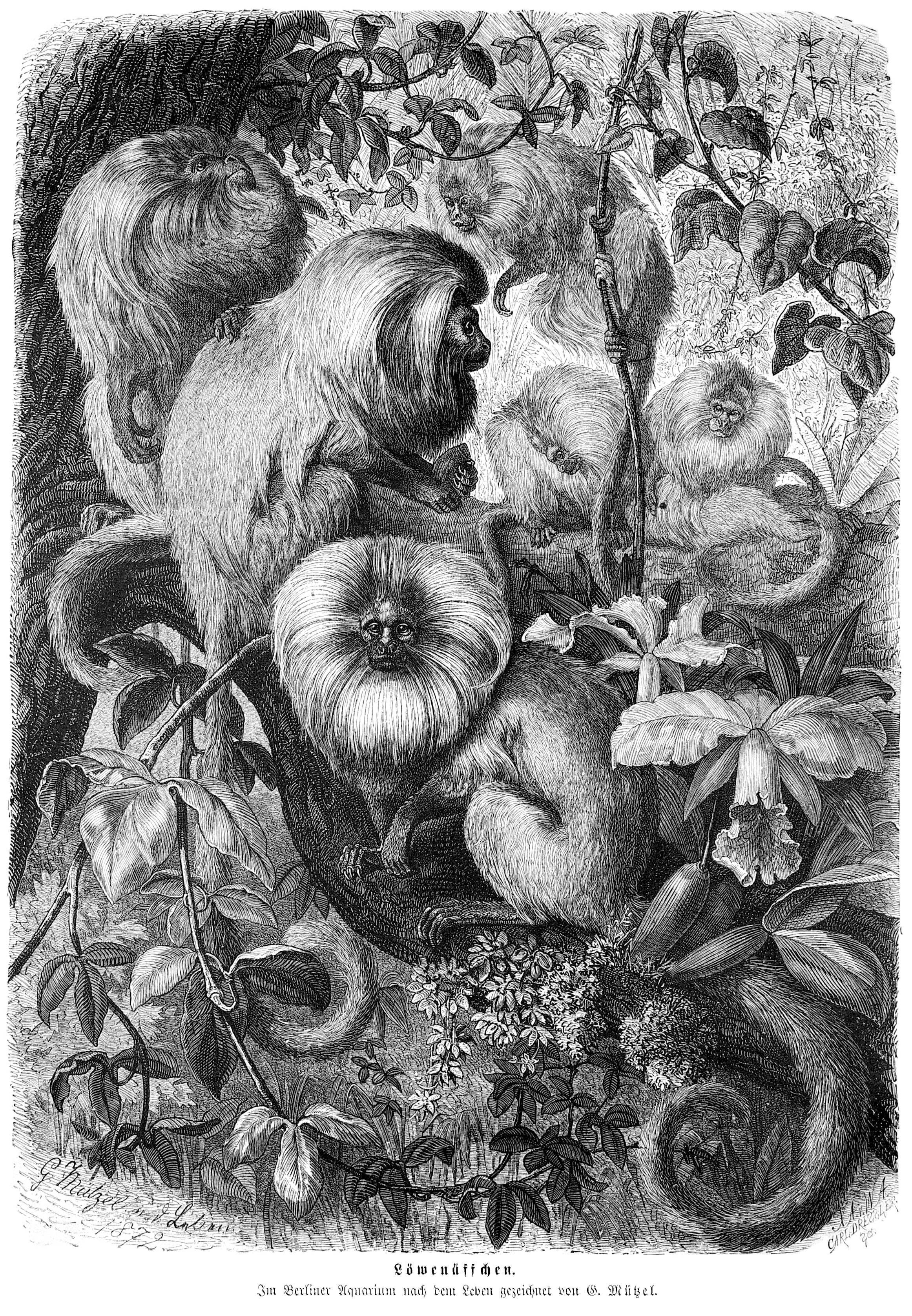 Image from page 851 of book Die Gartenlaube, 1872.